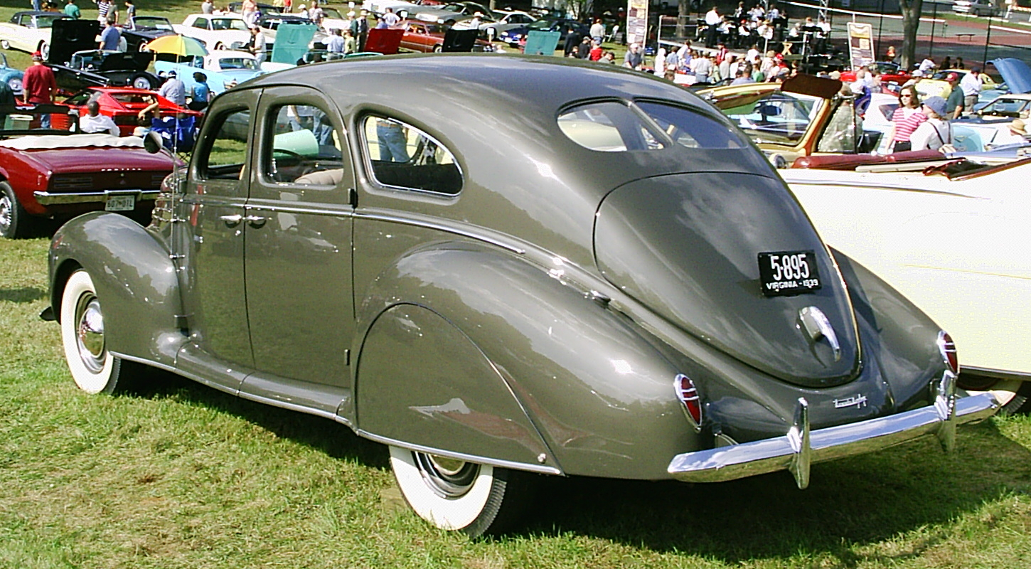 1939 Lincoln Zephyr fastback 4-door sedan. Taken at the 2007 Rockville (Maryland) Antique and Classic Car Show.